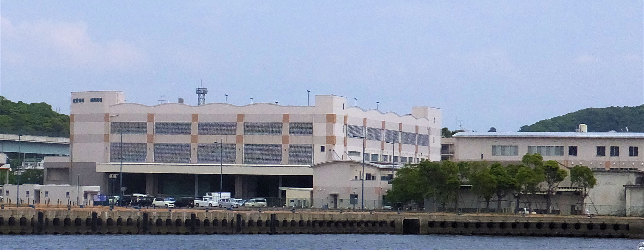 Sasebo City Wholesale Market (Hidukushi Market)